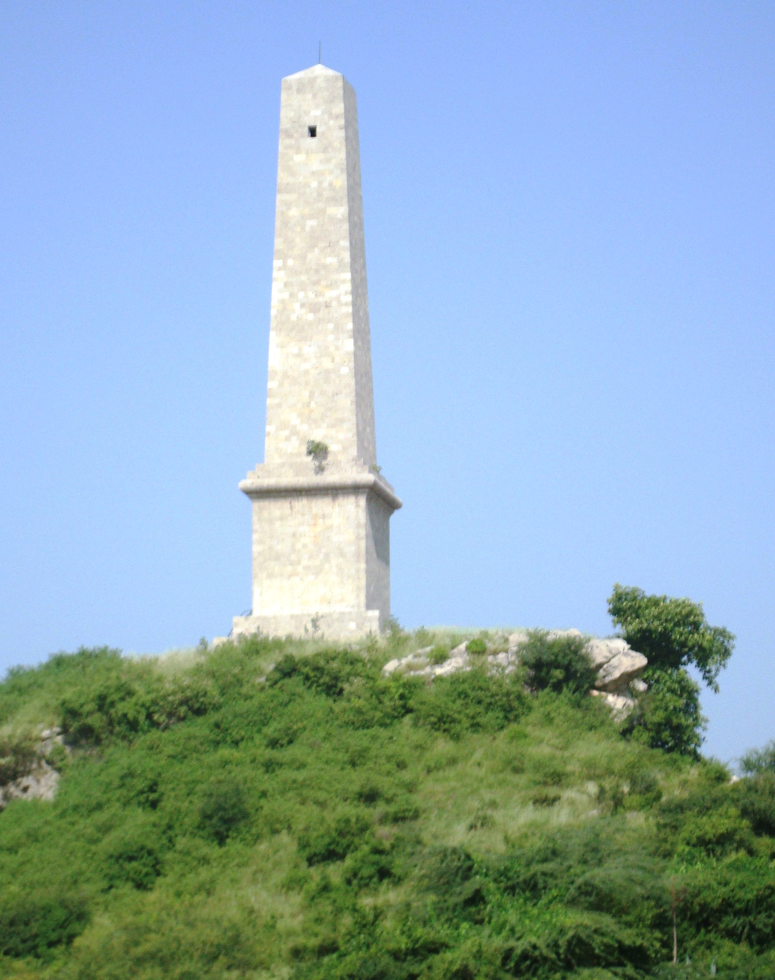 Nicholson's obelisk This is a photo of a monument in Pakistan identified as the PB-133